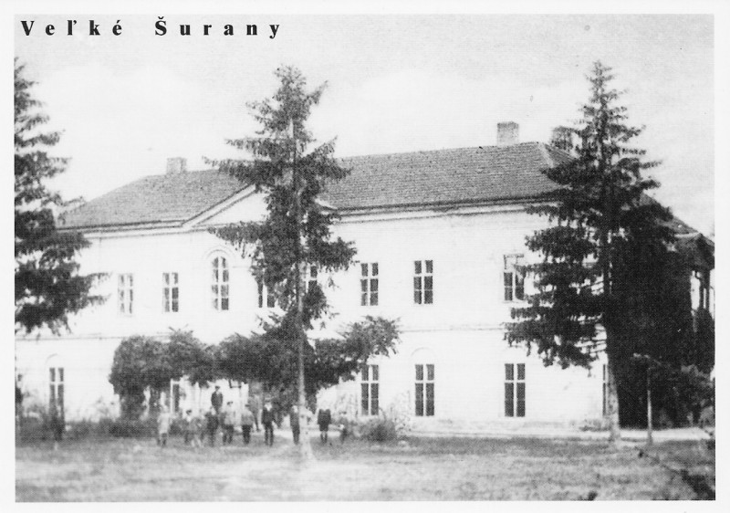 The former Berthold mansion in Šurany, Slovakia.